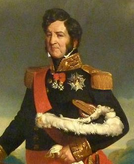 Louis Philippe I of France (1830)